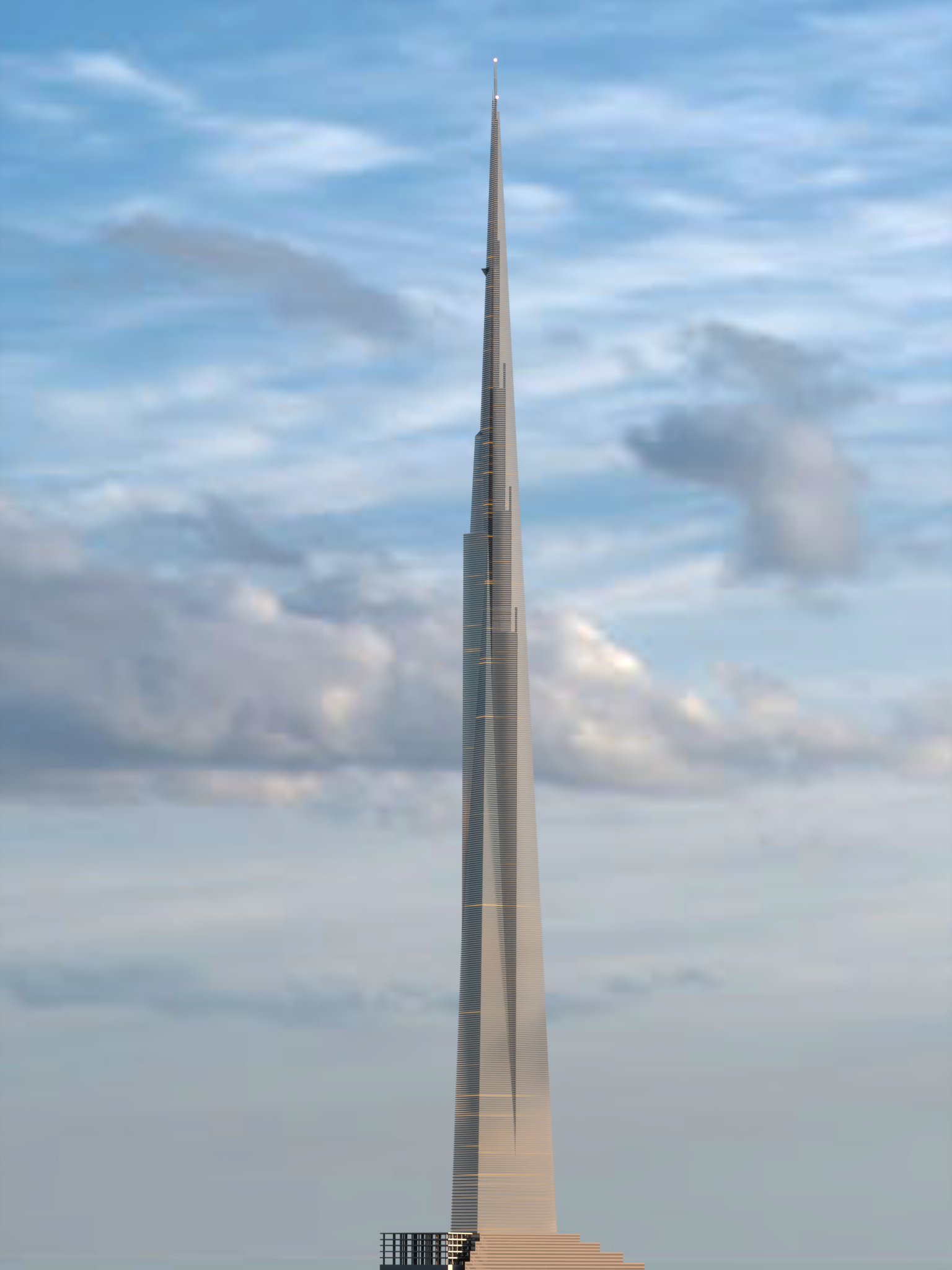 3D model of The Illinois, done with Blender 2.79